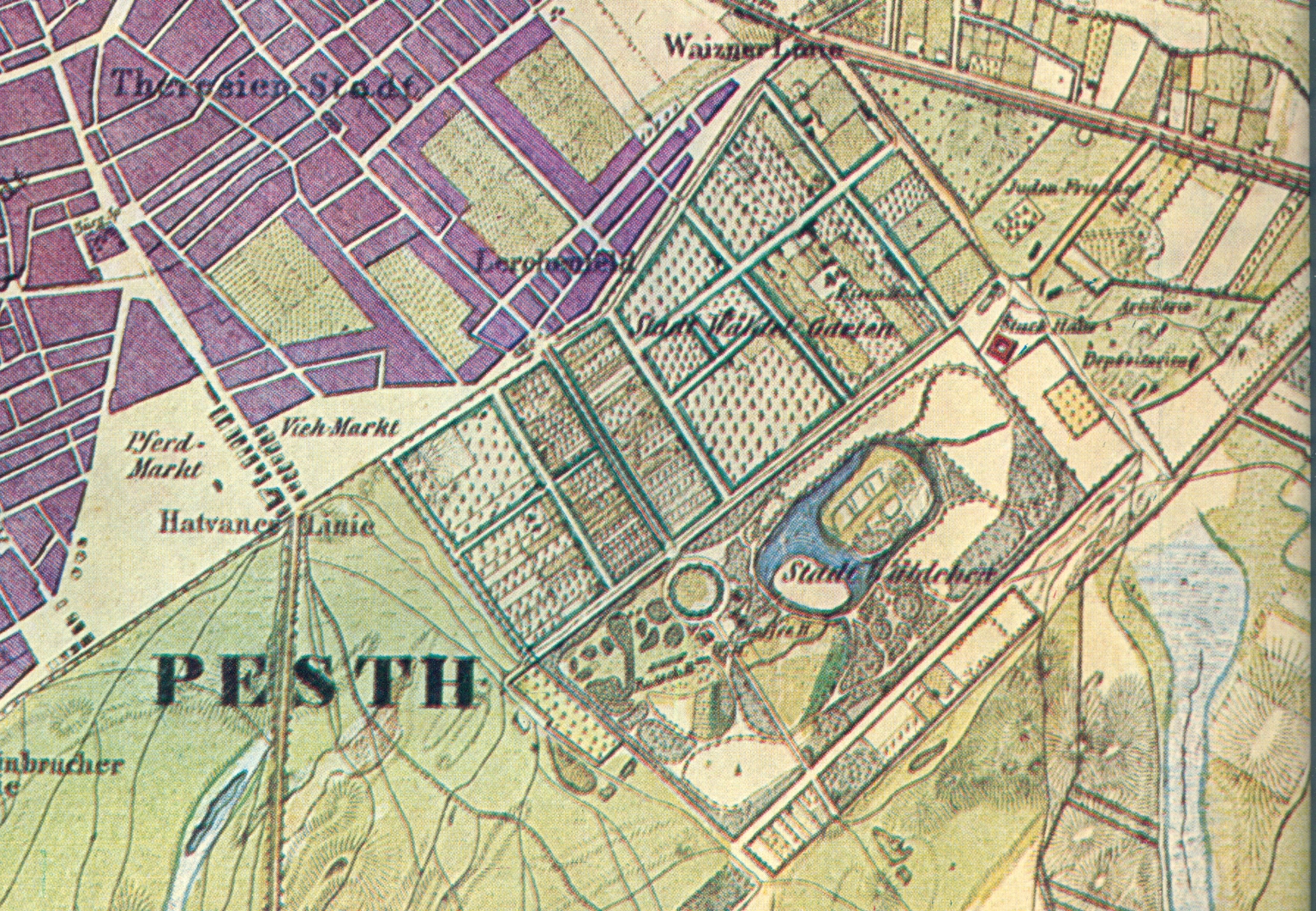 Map of City Park in Budapest 1760